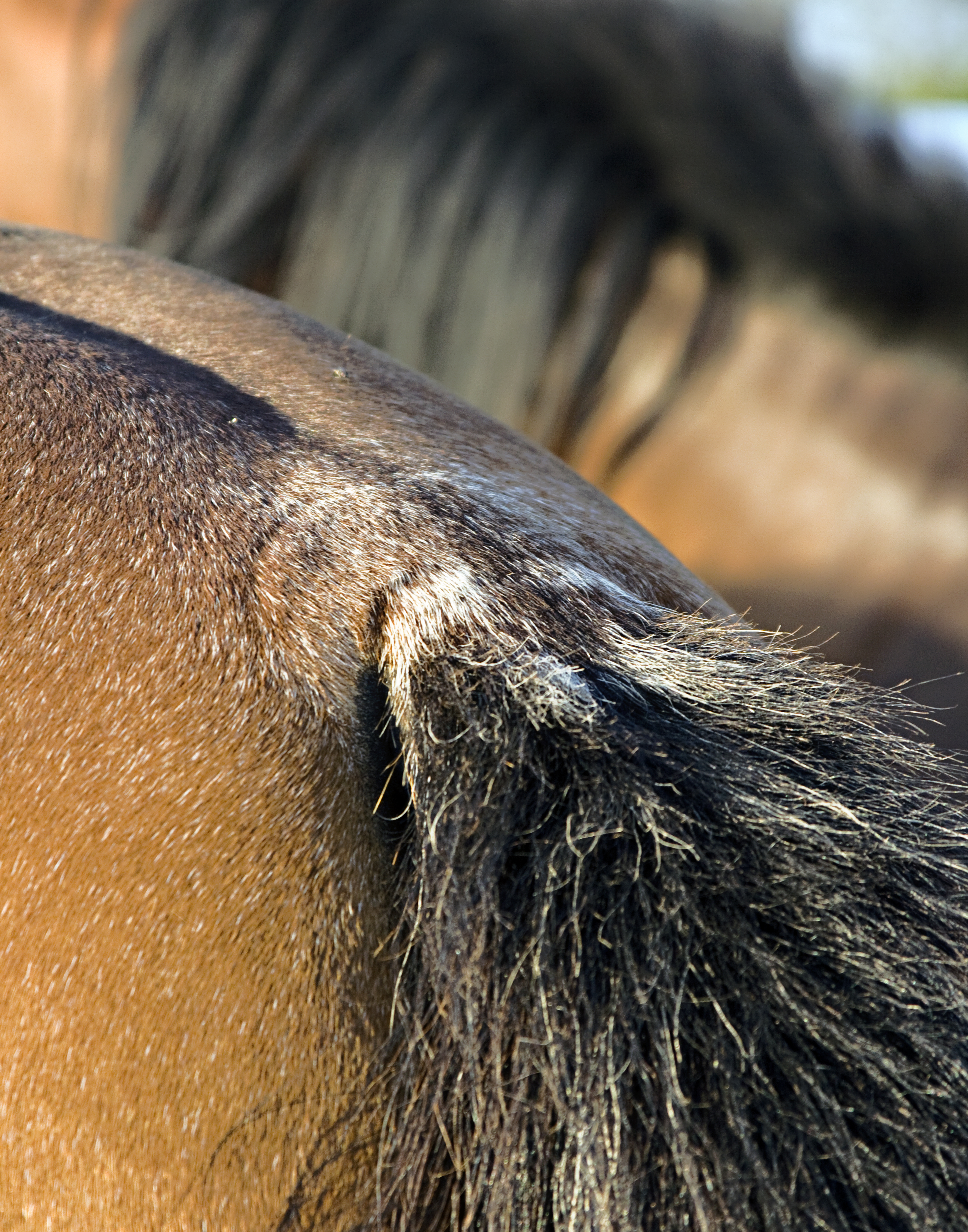 Rabicano hairs on the dock of a bay Arabian horse